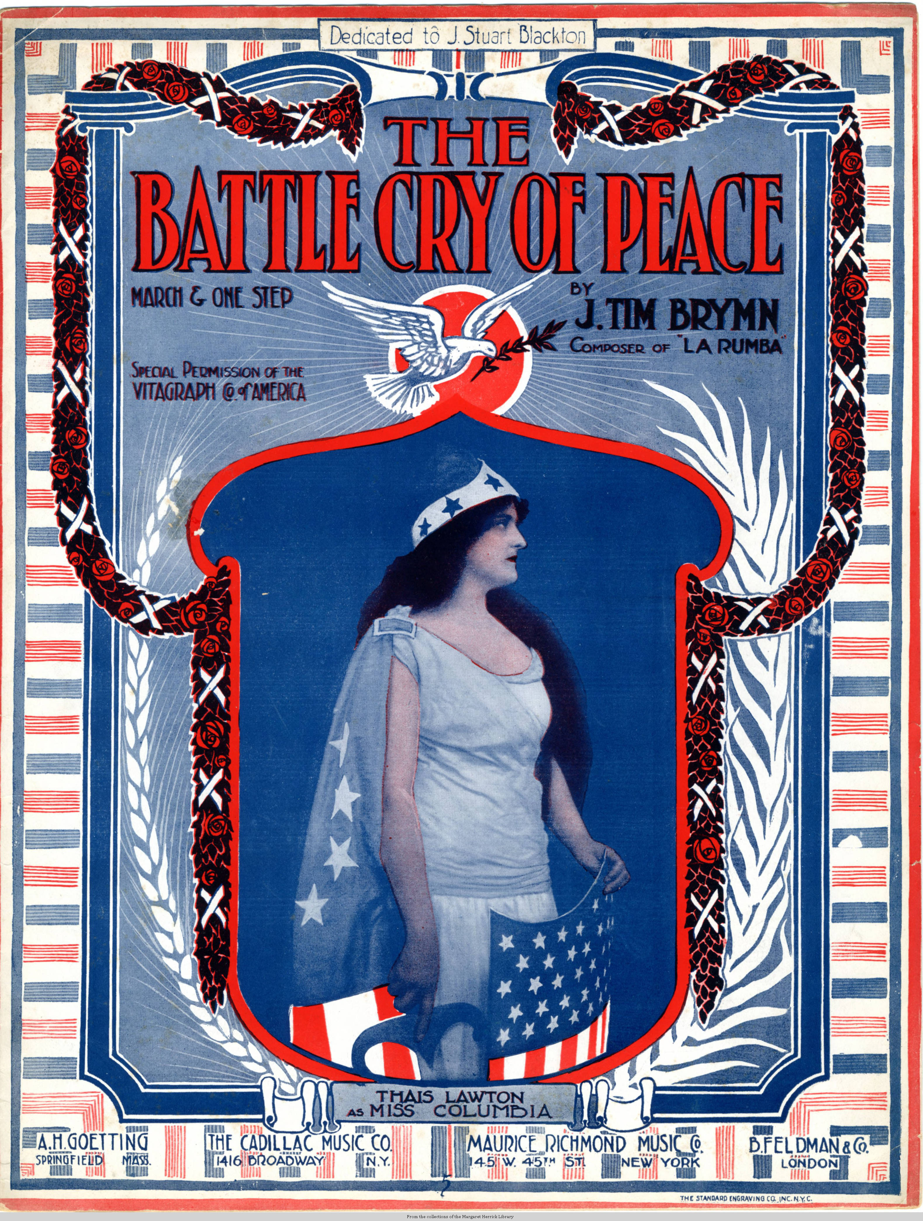 Sheet music cover: "The Battle Cry Of Peace : March & One Step" 1 piano score ([6] p.) ; 35 cm. Illustrated cover with image of Thais Lawton. "Dedicated to J. Stuart Blackton"--Cover. BATTLE CRY OF PEACE (Motion picture : 1915)